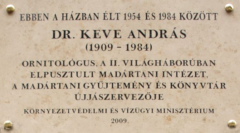 Commemorative plaque of András Keve, Veres Pálné Street No 9